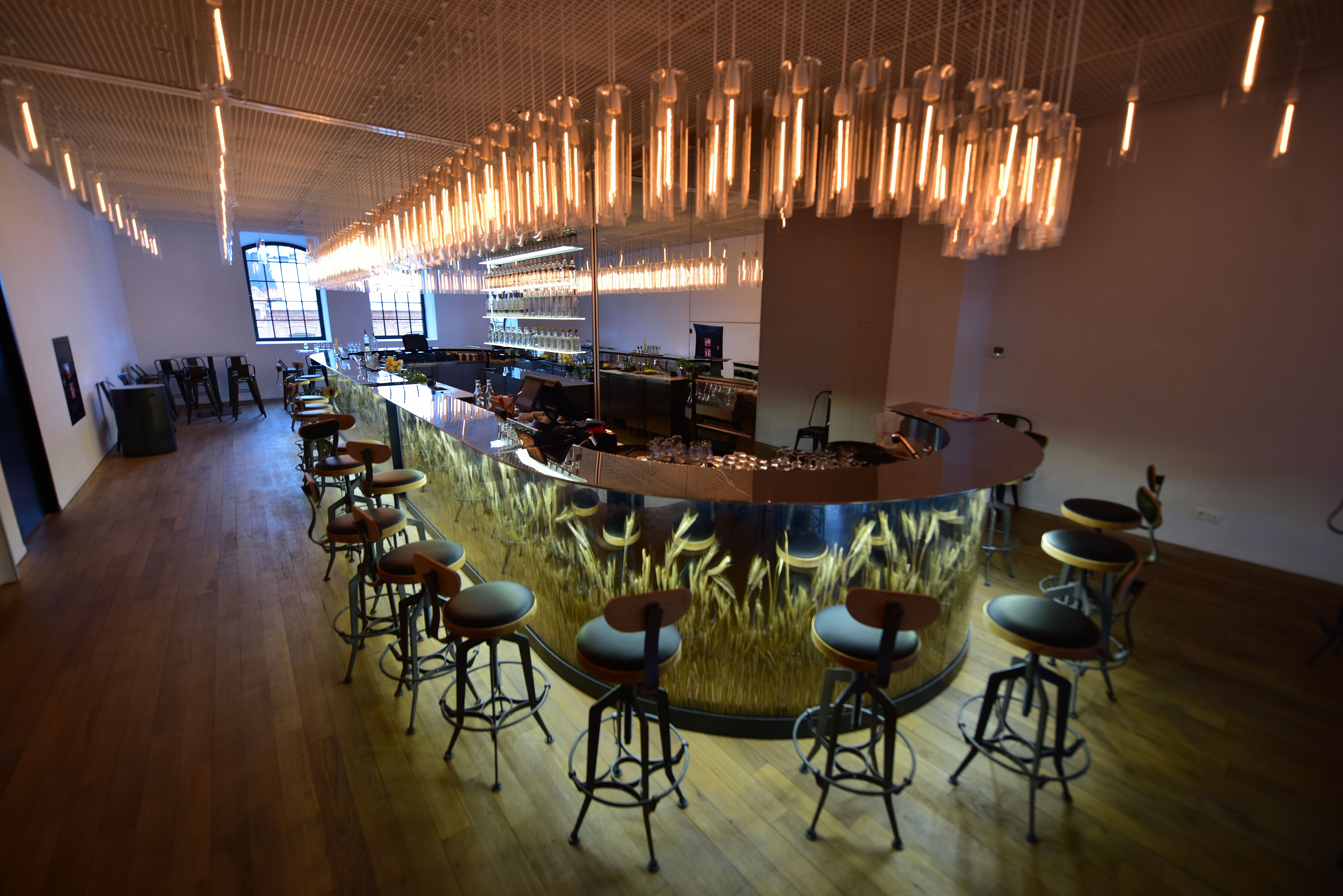 Polish Vodka Museum in Warsaw. Bar